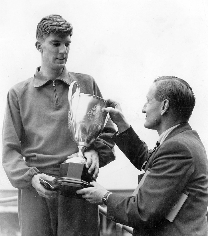 Australian champion sprinter John Treloar, being presented with a trophy by Lord Burghley ... after he won ... Amateur Athletics Association championships, White City, London